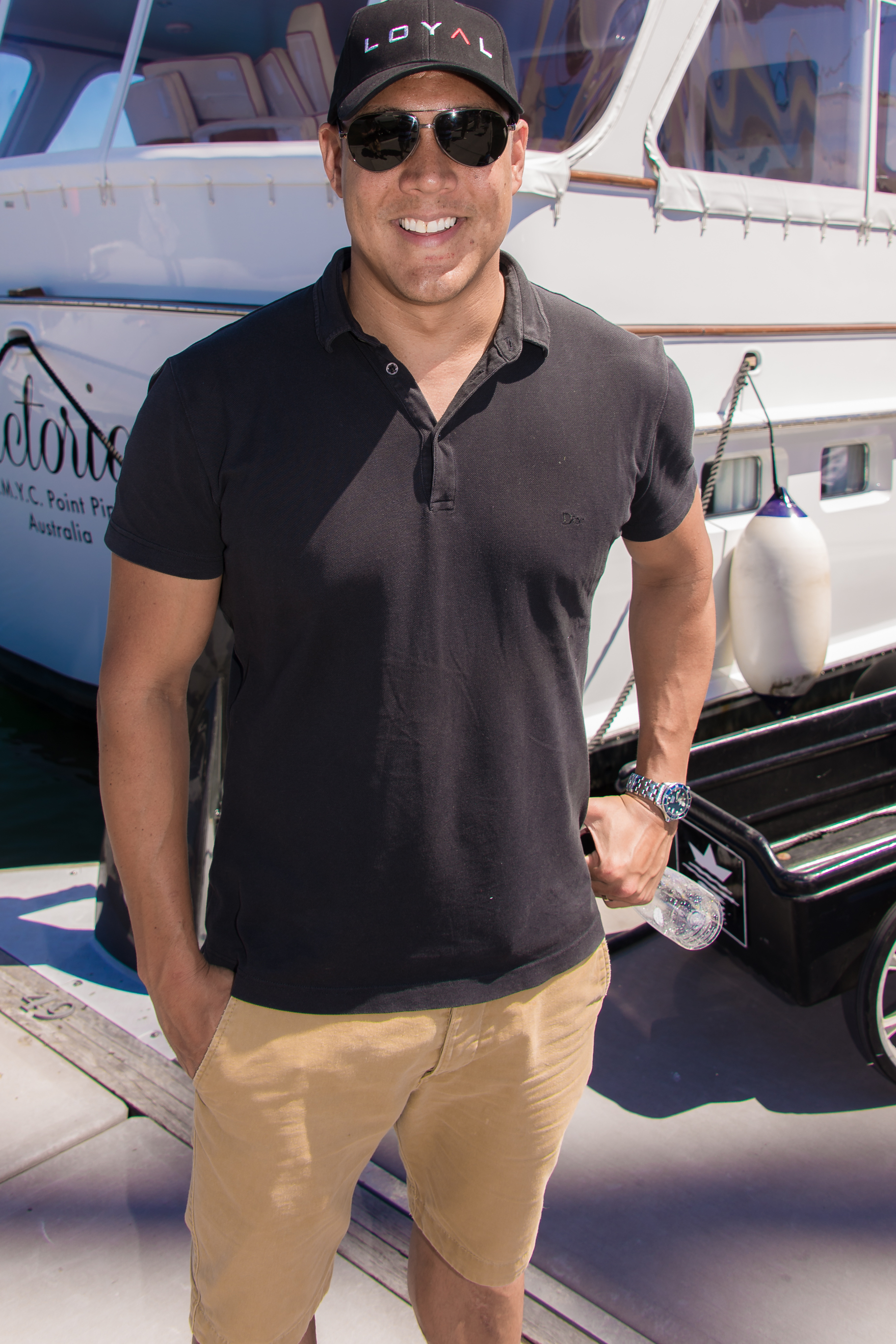 Geoff Huegill farewells Perpetual Loyal for the Sydney to Hobart Yacht Race